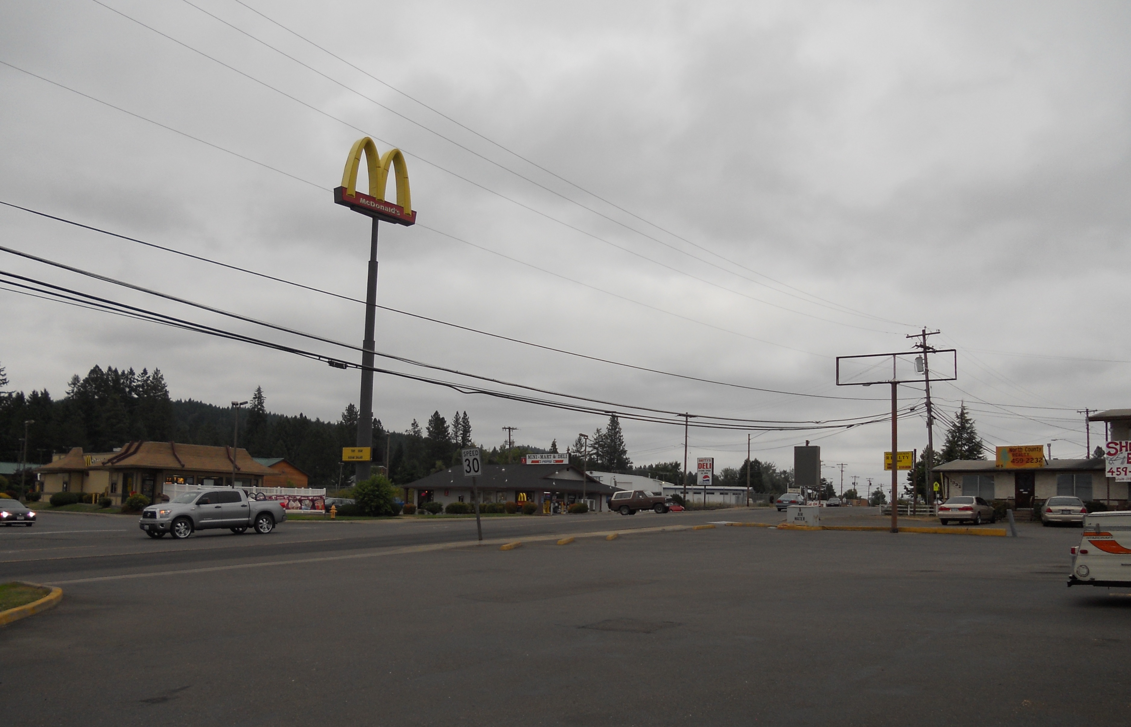 Sutherlin, a city in Douglas County, Oregon, United States